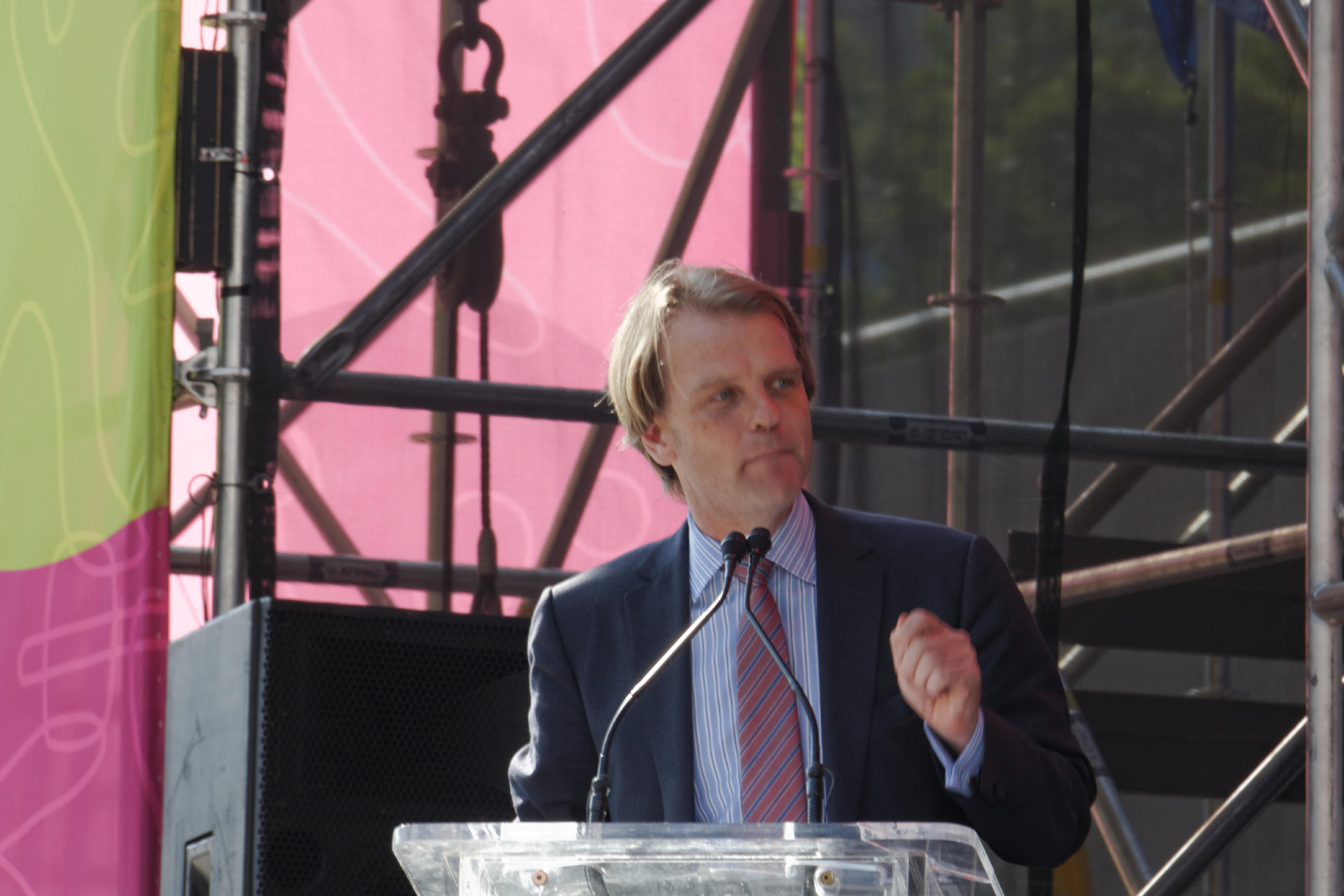 Minister's word of encouragement